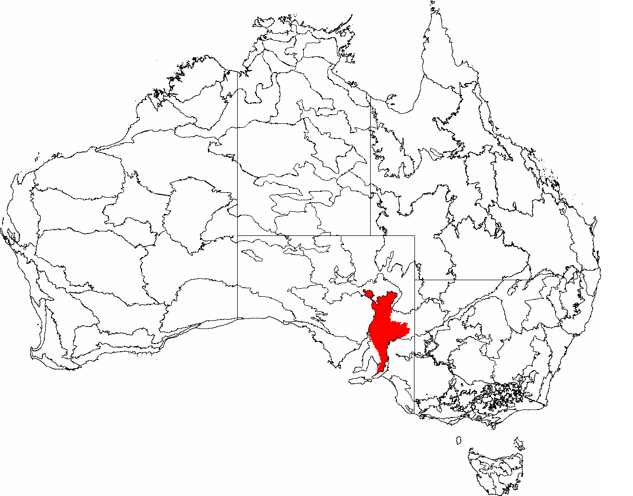 This is a map of the Interim Biogeographic Regionalisation of Australia (IBRA), with state boundaries overlaid. The Flinders Lofty Block region is shown in red.